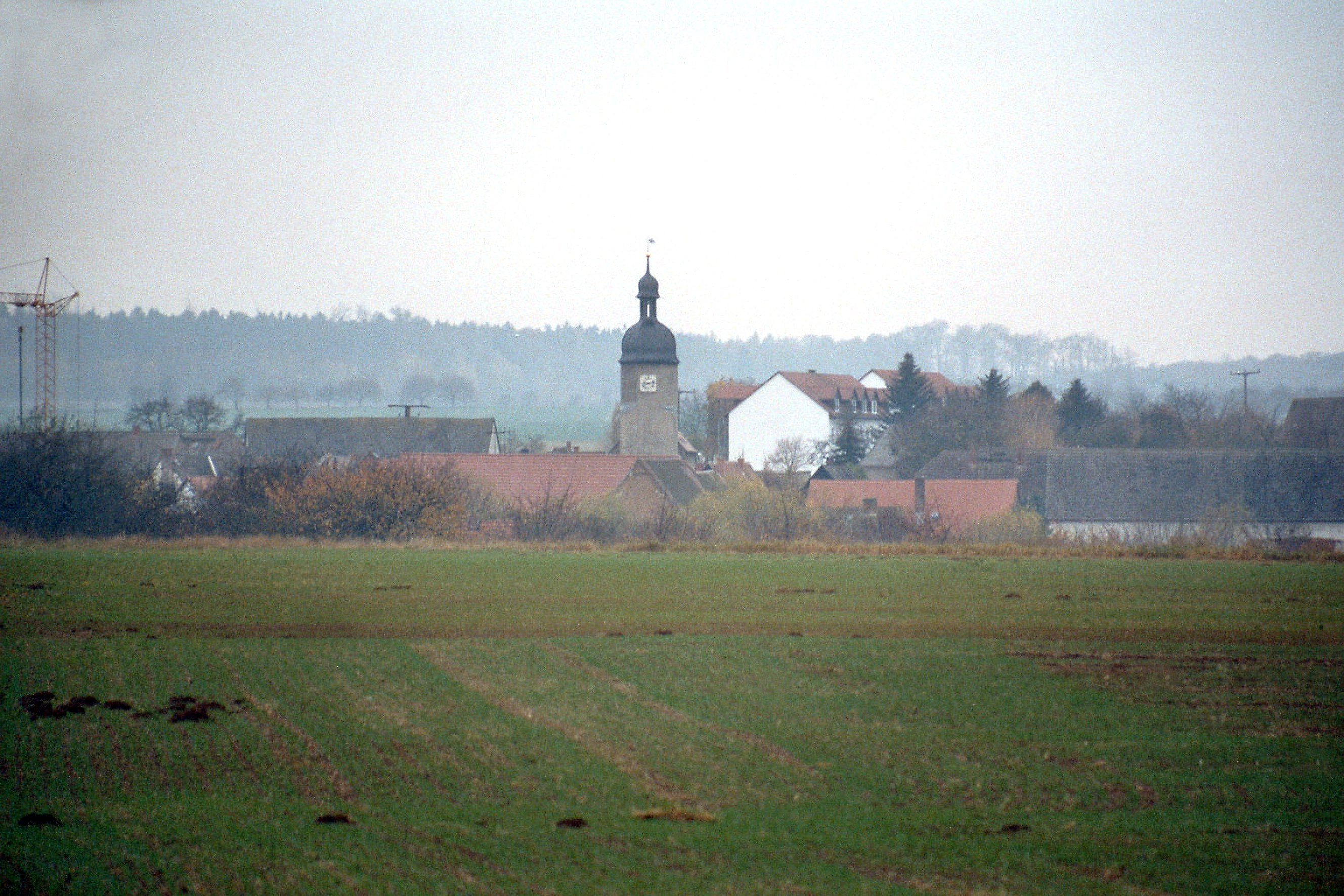 View to the village Wischroda, telephoto from the road to Schimmel